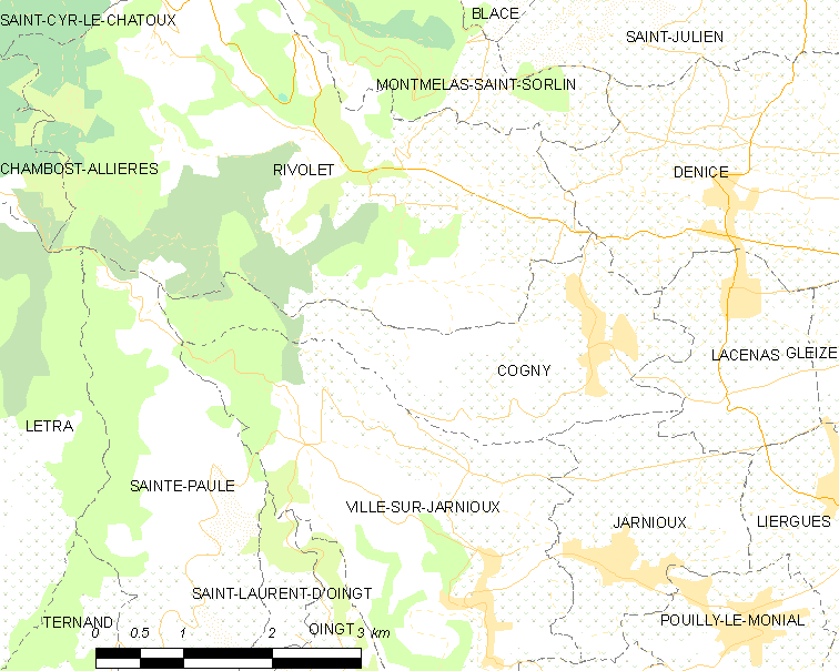 Map of French municipality